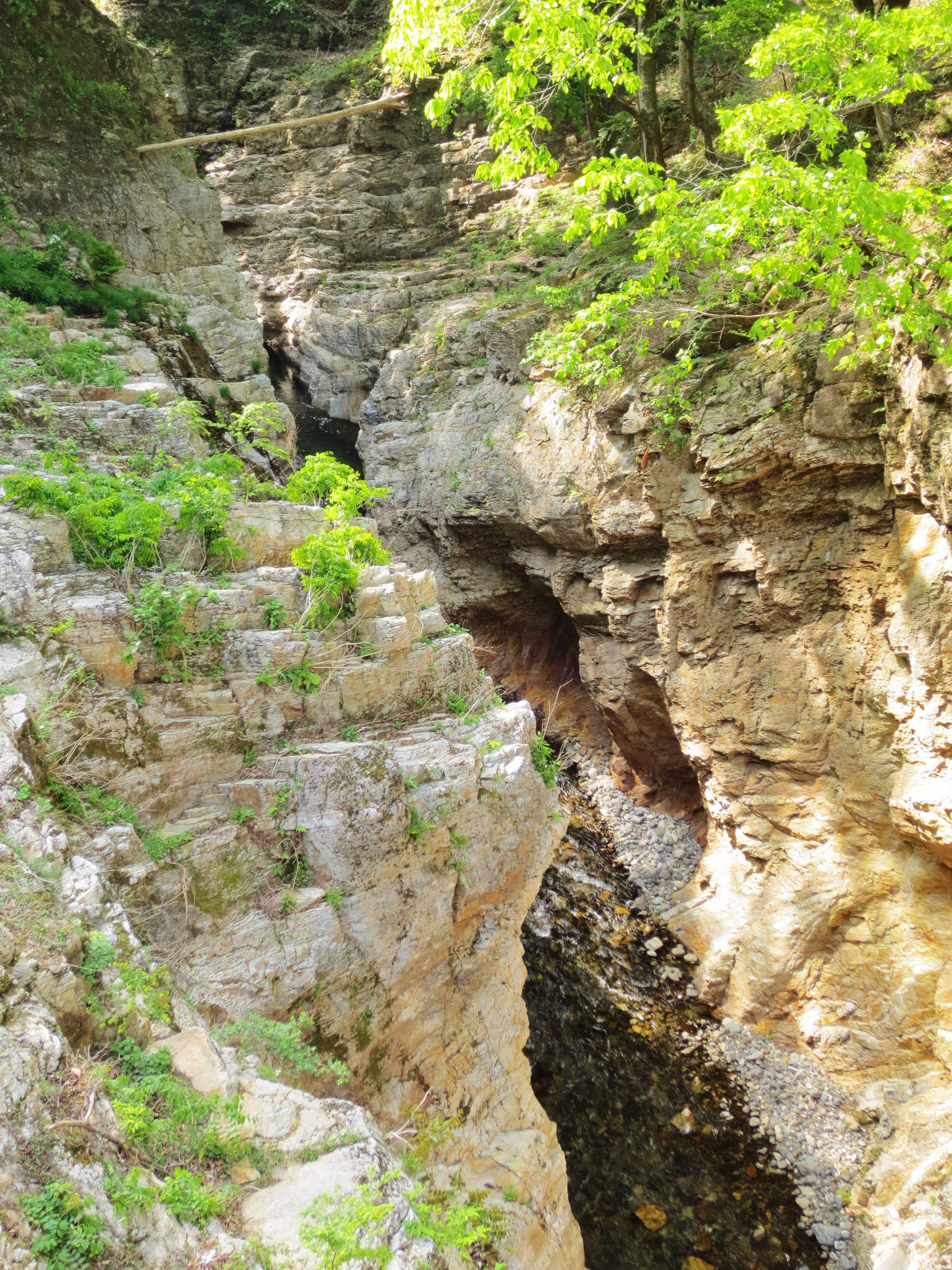 Semi Valley (Nanmoku, Gunma).